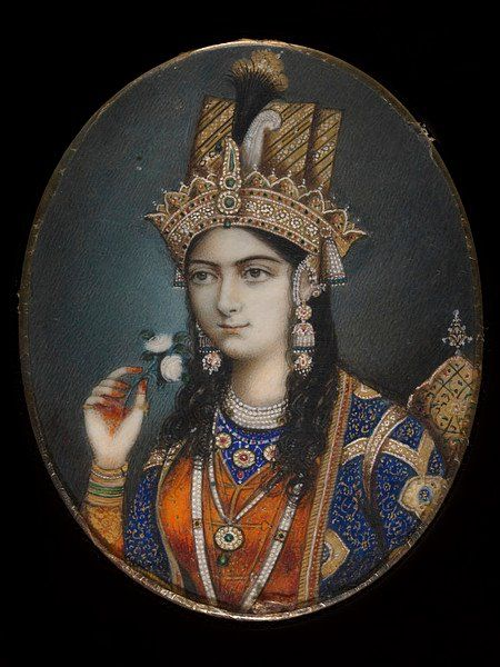 Portrait of Mumtaz Mahal (Arjumand Banu Begum). She was the favourite wife of the Mughal Emperor Shah Jahan. She died shortly after giving birth to her fourteenth child in 1631. The following year the emperor began work on the mausoleum that would house her body. The result was the world-famous Taj Mahal.